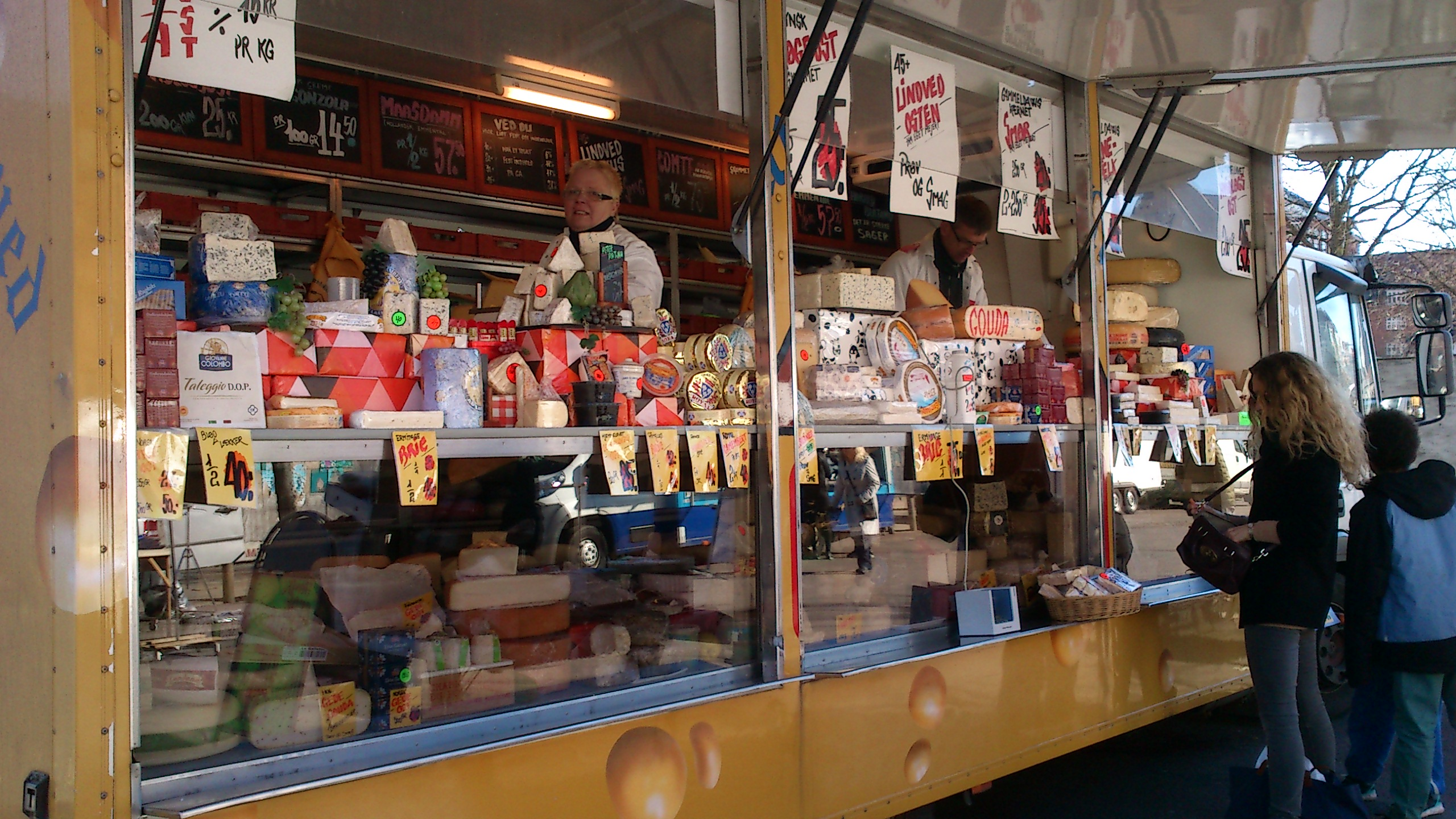 Cheese for sale at the food market Ingerslev Torv in Aarhus.